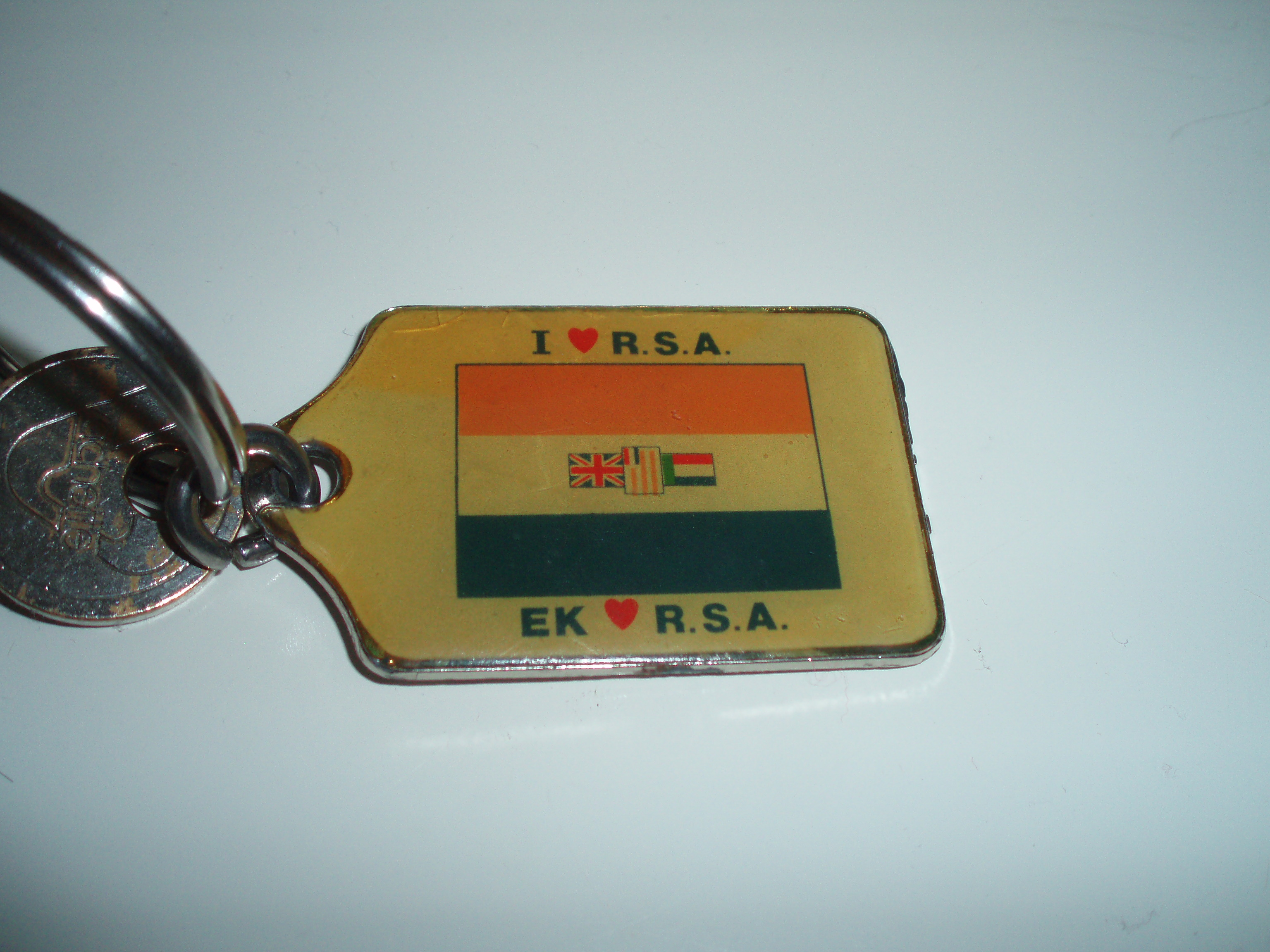 Old SA Flag